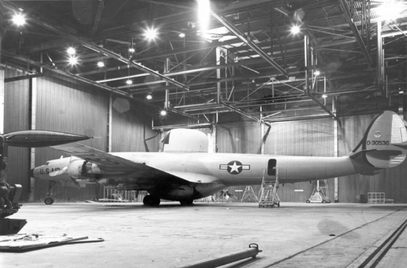 A U.S. Air Force Lockheed EC-121D Warning Star (s/n 53-536) of the 552nd Airborne Early Warning & Control Wing at a hangar at McClellan Air Force Base, California (USA), in the late 1960s.